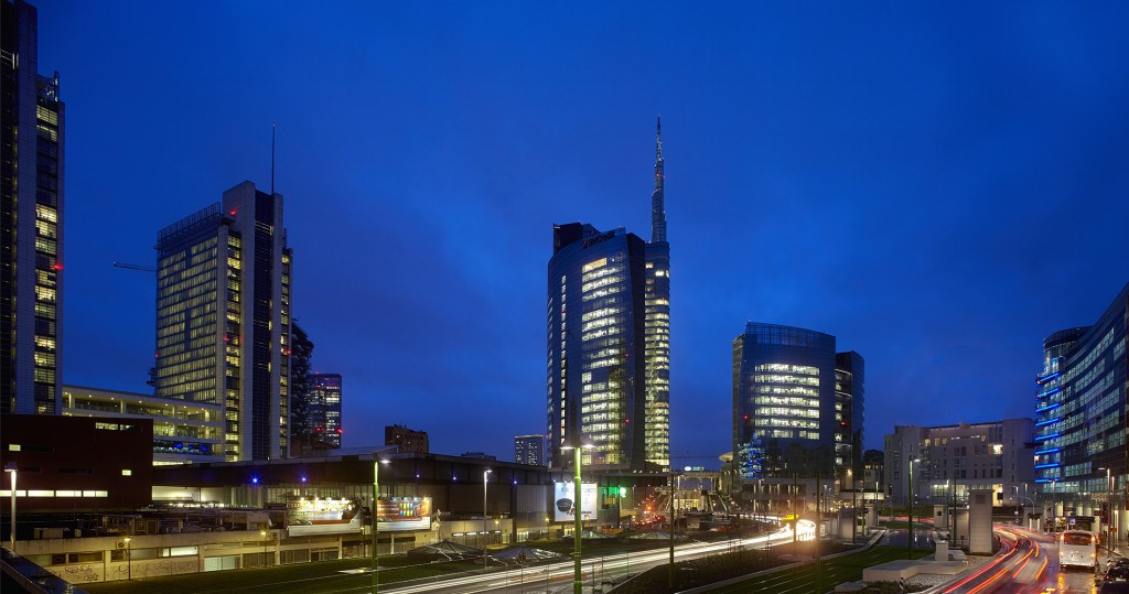 Picture showing the business district of Porta Nuova, in the city of Milan (Italy) by night.